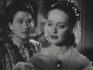 Cropped screenshot of Fay Bainter and Bette Davis from the trailer for the film Jezebel.